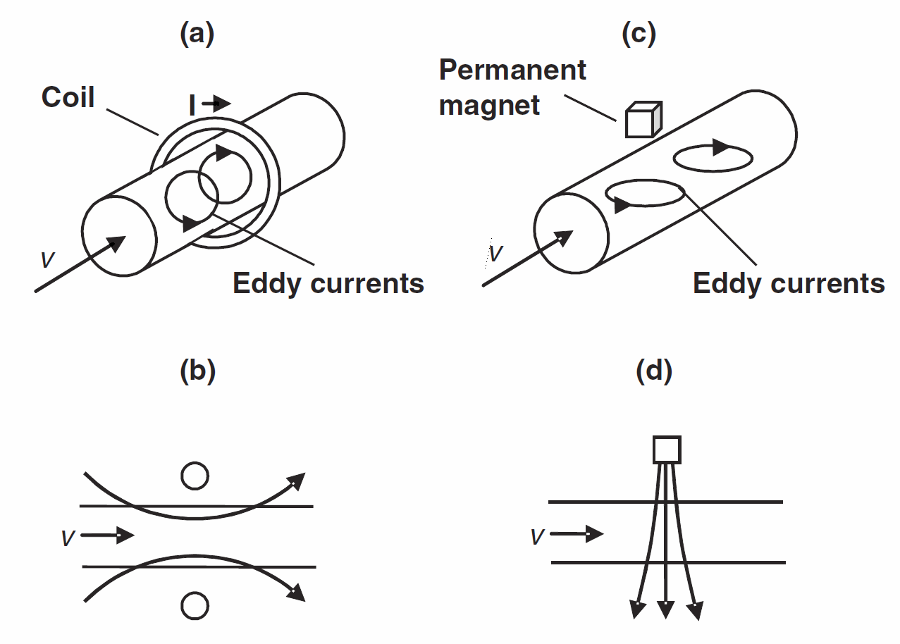 Transverse and longitudinal arrays of LFV